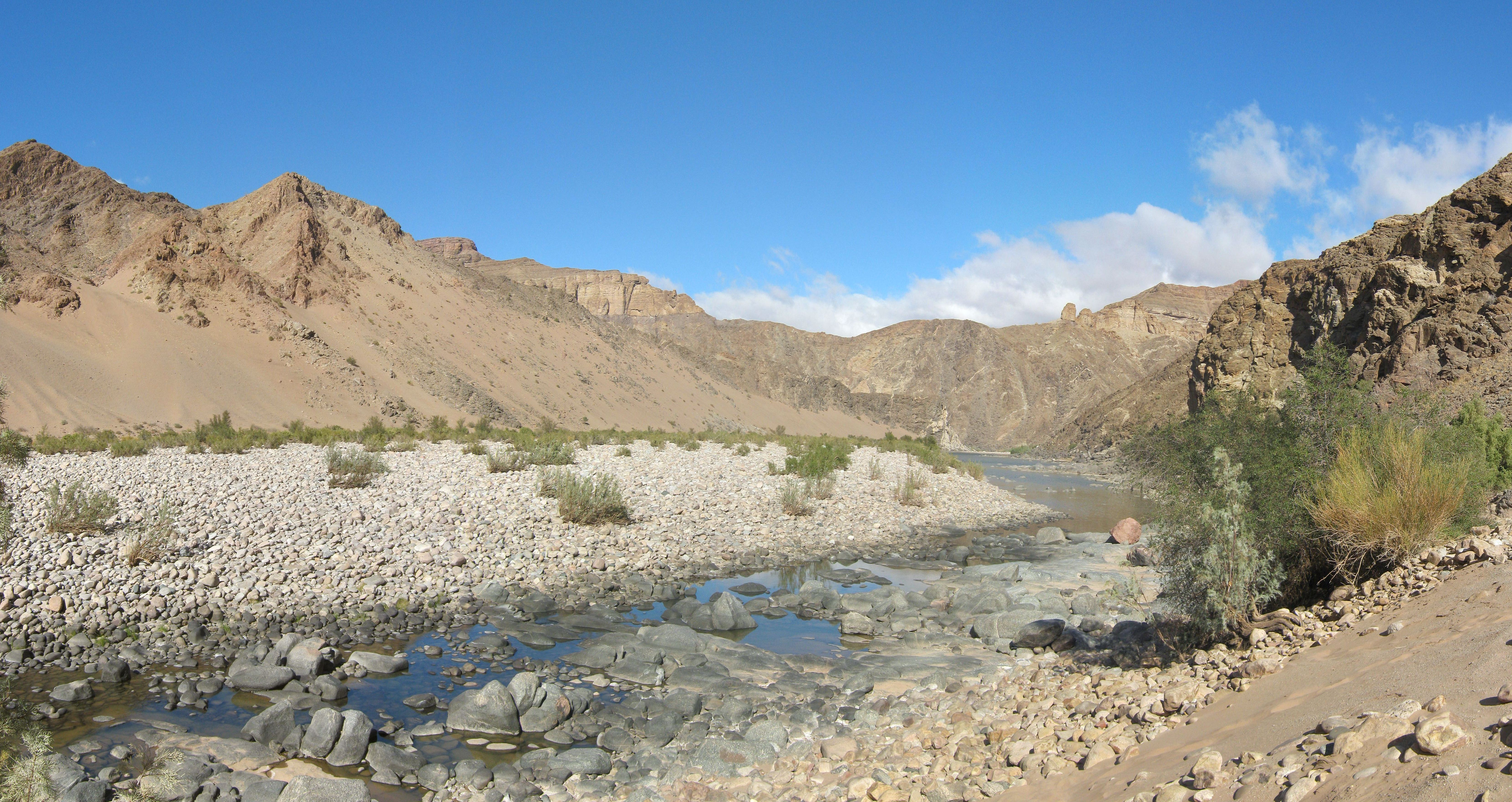 Typical section of stones around river crossings